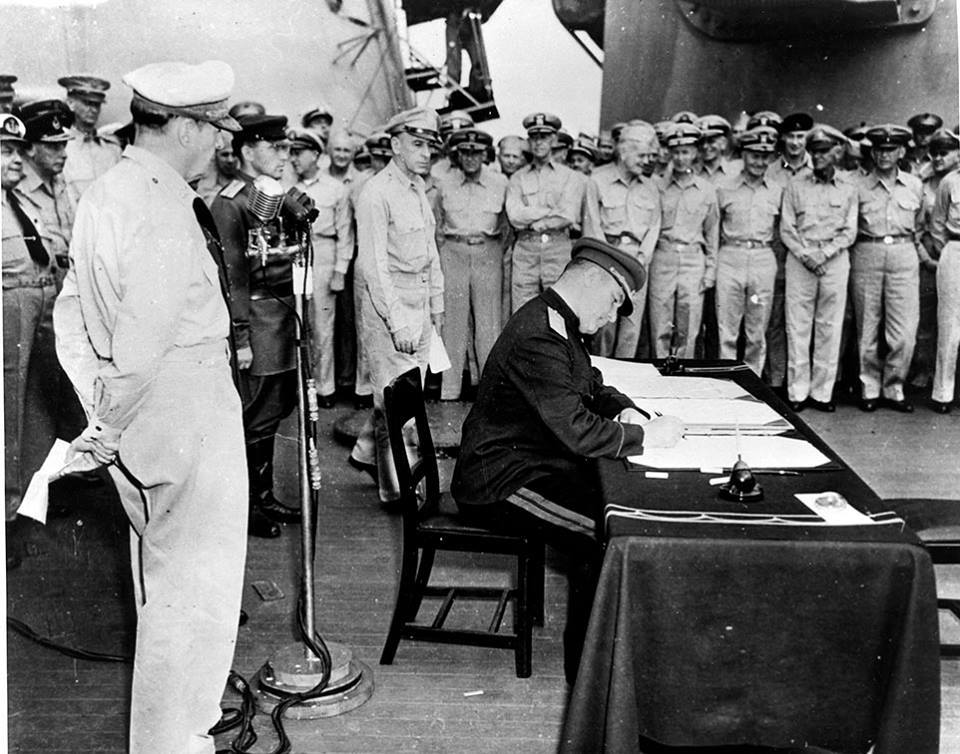 AWM caption: Tokyo Bay, Japan. 1945-09-02. Surrender of Japanese aboard USS Missouri. Lieutenant-General Derevyanko representing Union of Soviet Socialist Republics signs the instrument of surrender. Other Russian representatives stand alongside General MacArthur at the microphone.